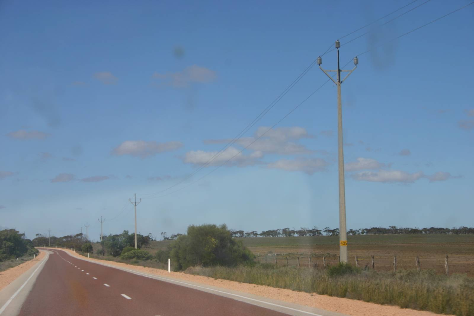 Photo of Stobie poles beside the Flinders Highway, South Australia. I took this photo on 22 April, 2006. Takver - Released under GNU FDL